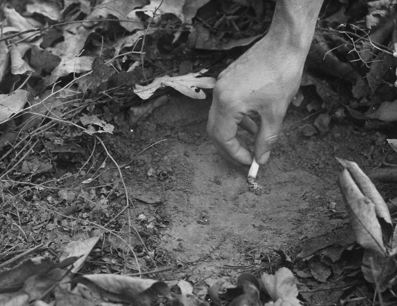 Scope and content: Original caption: Correct way to dispose of a cigarette butt in the woods. Clear off space about 12" square, exposing the mineral soil. Place cigarette butt in center of square.